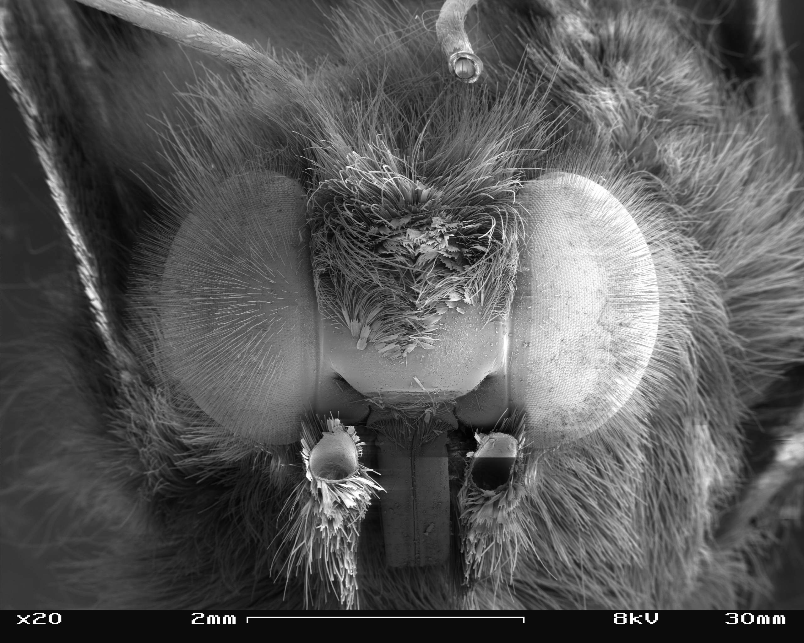 SEM image of a Peacock Head, front view, front view of the compound eyes of Inachis io.